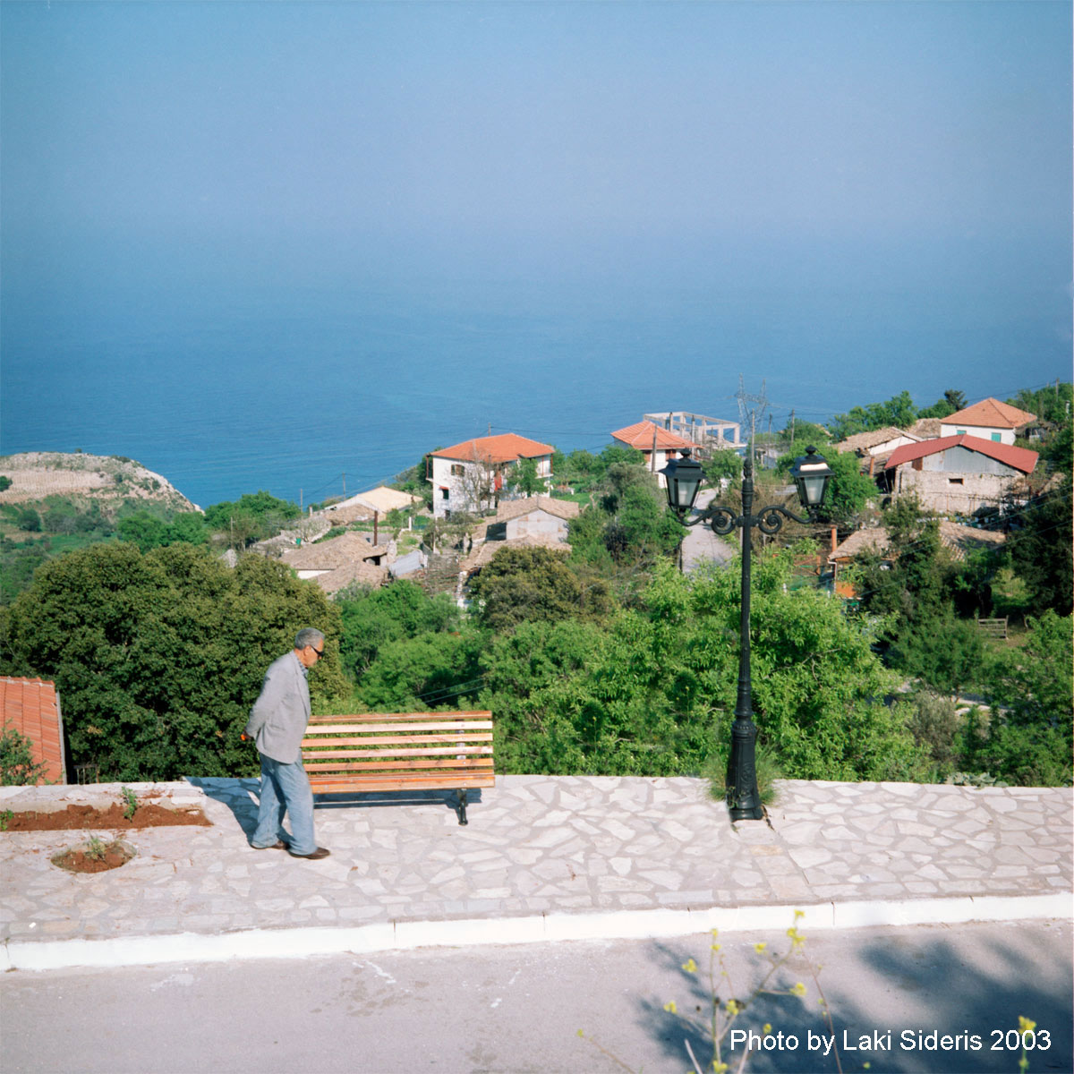 View of Athani village in Lefkada. Photo by Laki Sideris 2003